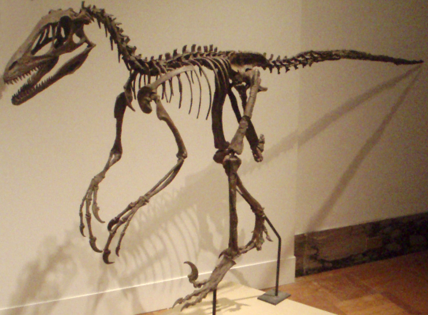 Full skeleton of a Deinonychus antirrhopus, on display at the Royal Ontario Museum, Toronto.